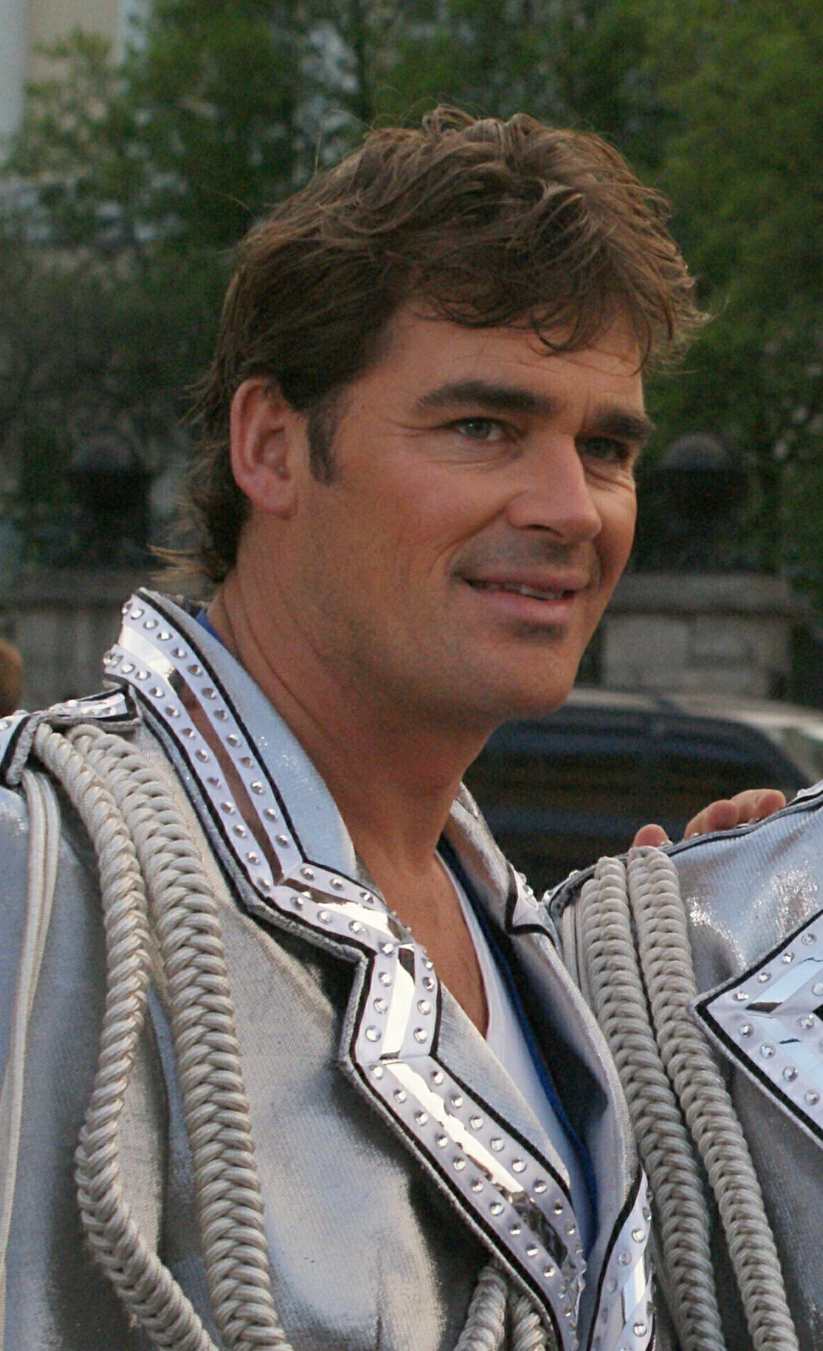 Jeroen van der Boom in Moscow, 2009